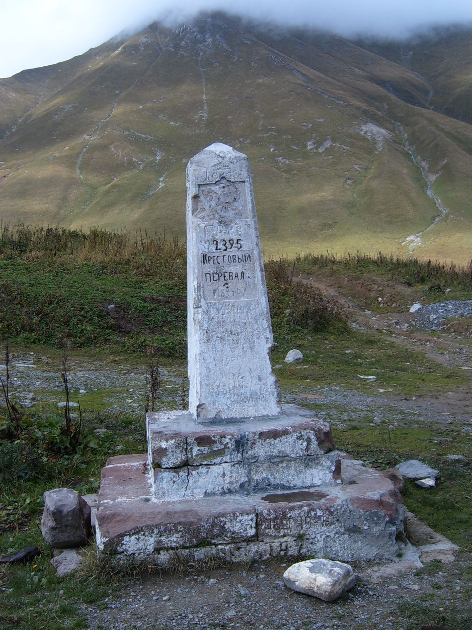 Krestovy Mountain Pass, Northern Georgia